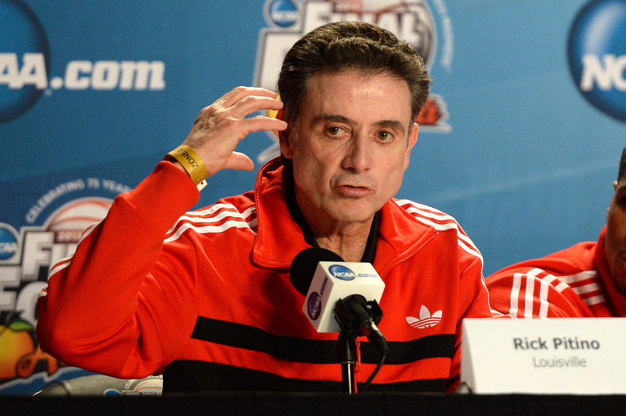 Rick Pitino, head coach of the Louisville Cardinal men's basketball team. (Adam Glanzman/Daily)